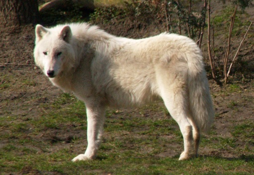 Arctic wolf, Berlin Zoo